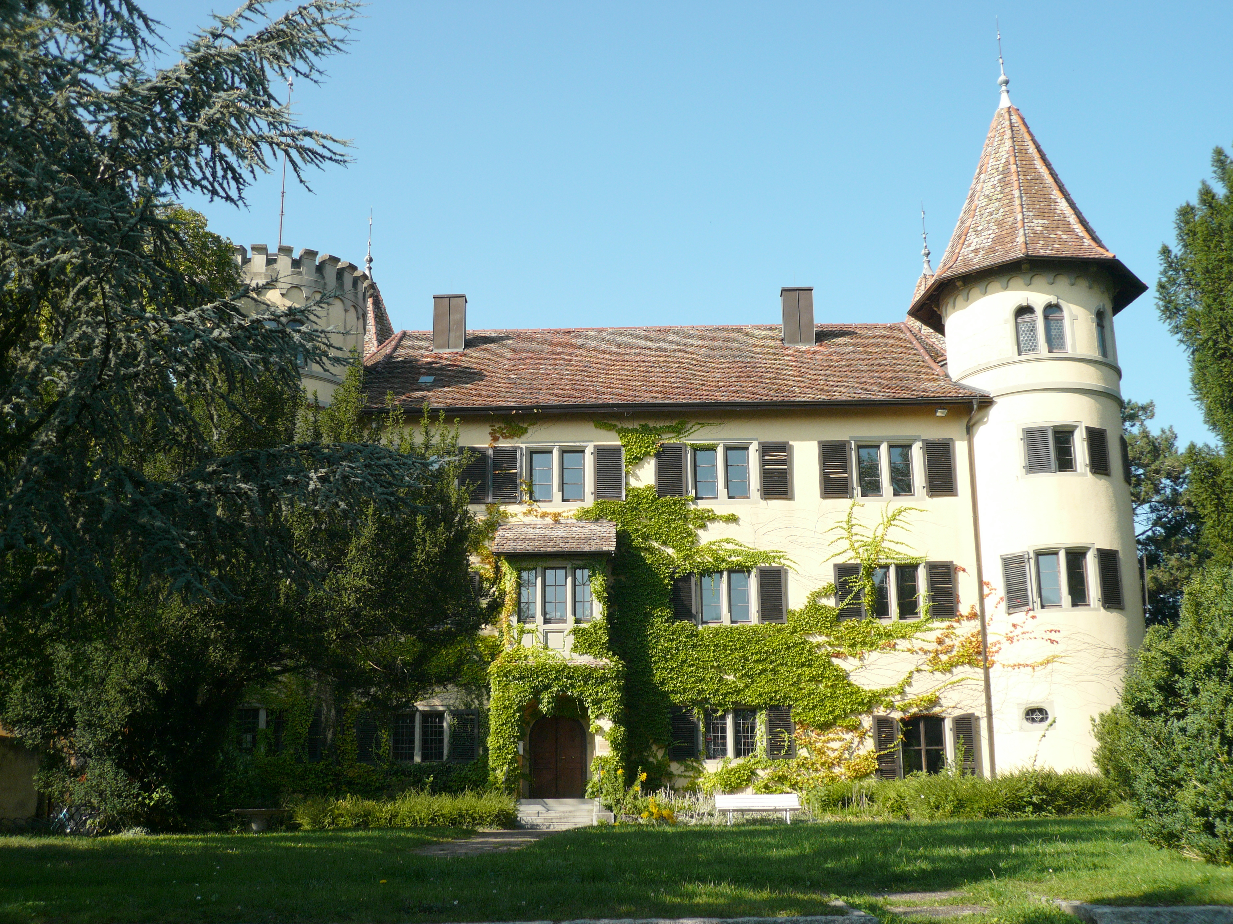 Koenigsegg castle on the island of Reichenau